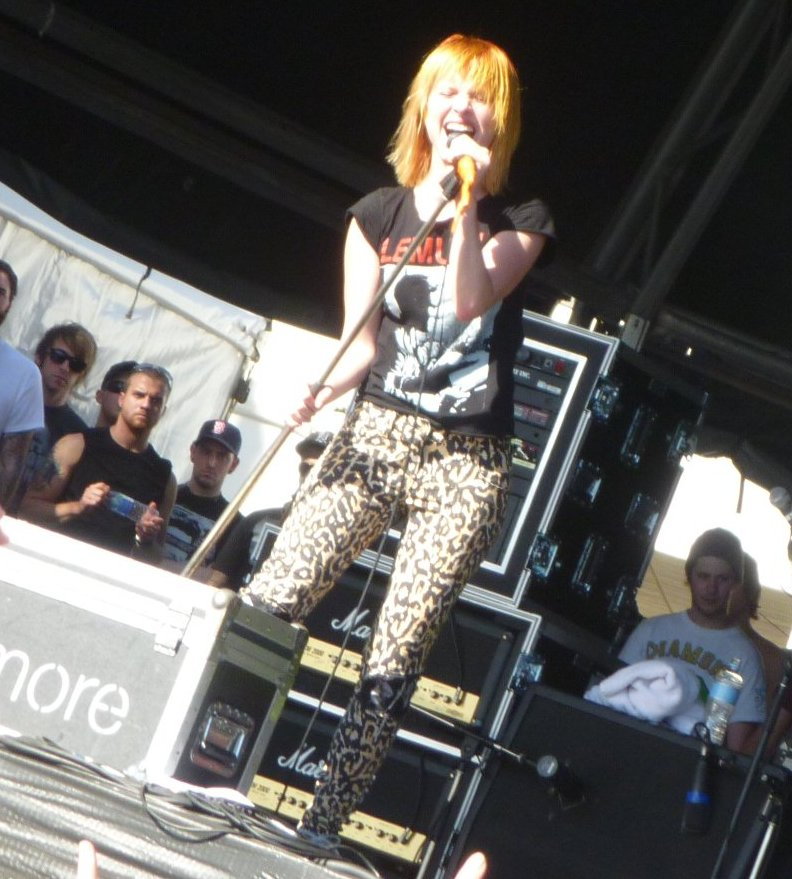 Hayley Williams da marianna